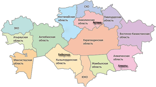 Map: Provinces of Kazakhstan